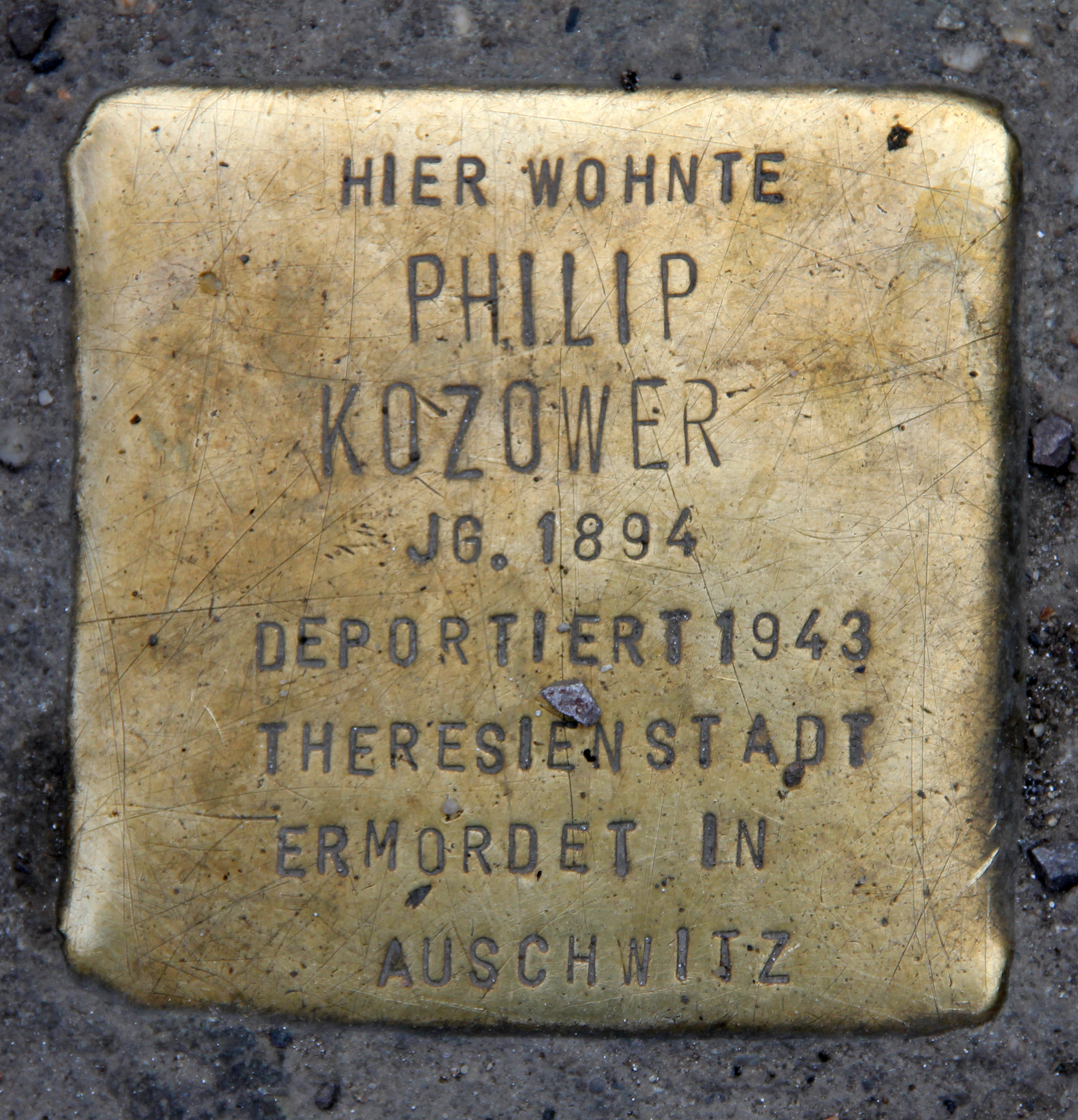 "Stolperstein" (stumbling block), Philip Kozower, Oranienburger Straße 9-10, Berlin-Mitte, Germany